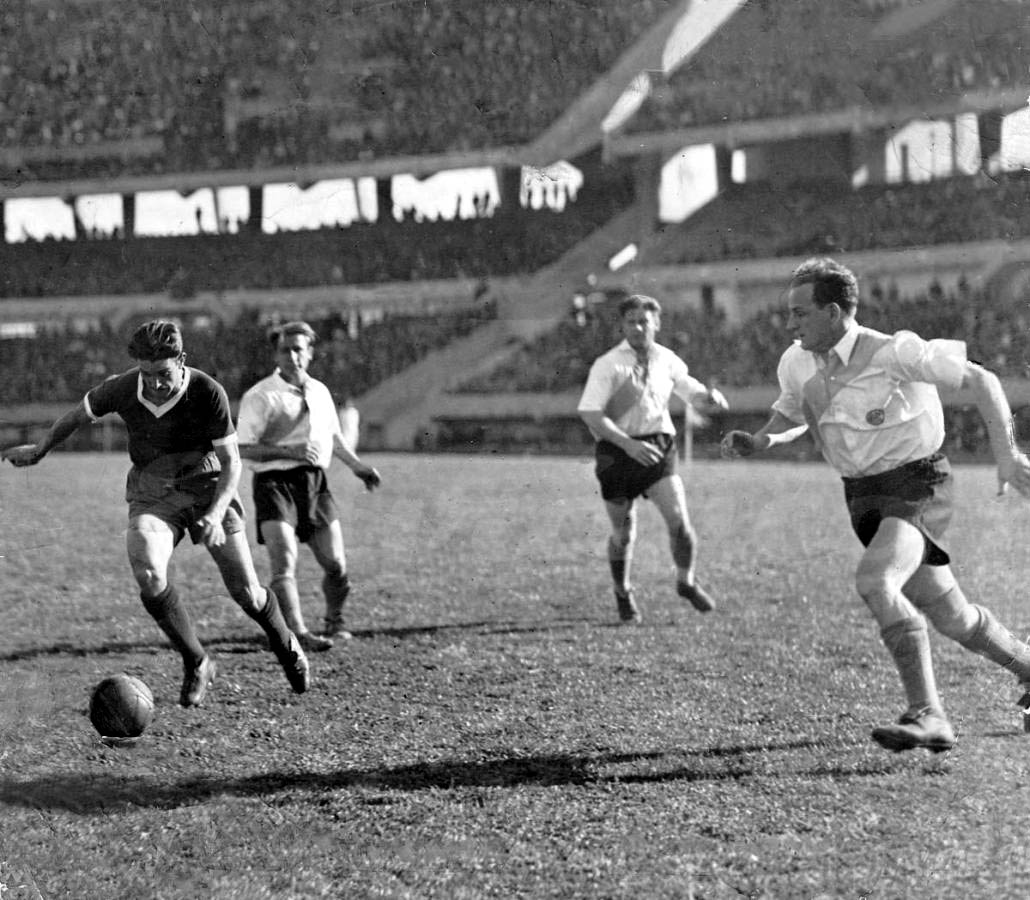 Club Atlético Independiente player, Vicente de la Mata, playing the ball in a match against CA River Plate on October 12, 1939.In the photo also appear River footballers José María Minella, Luis Vasini and Santamaría.